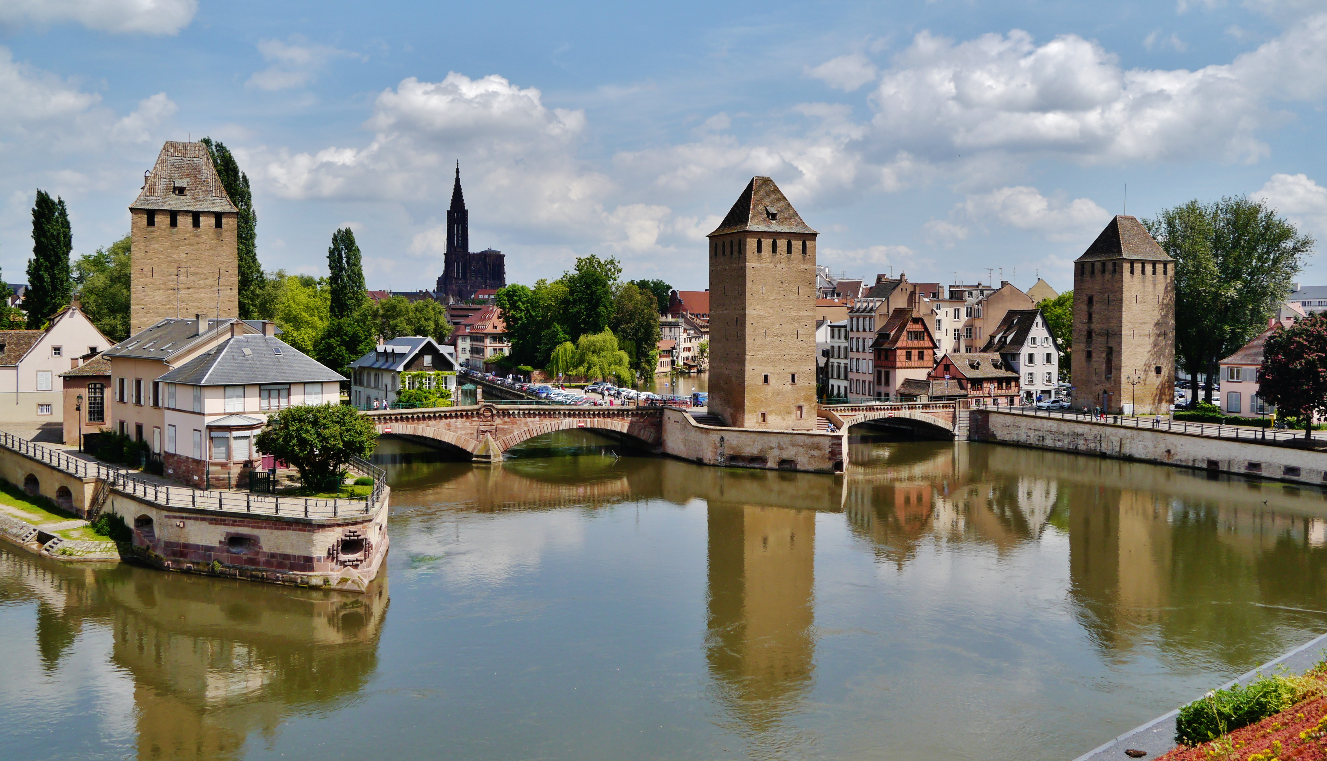 Covered Bridges, Strasbourg, Alsace, France